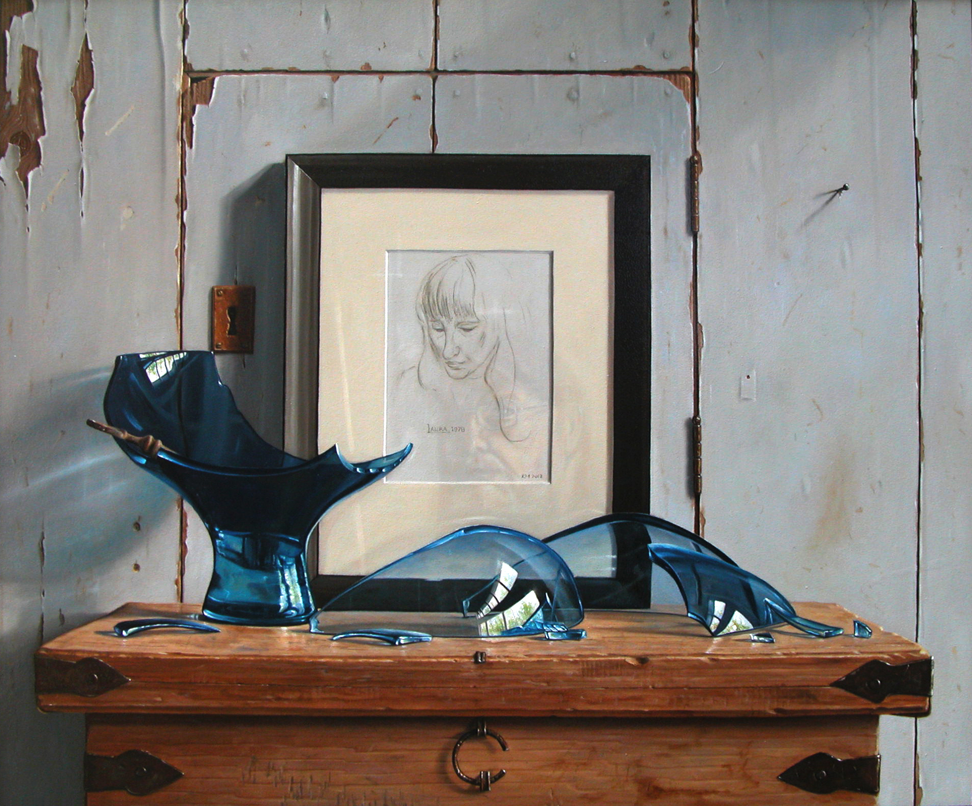 Rob Møhlmann painting